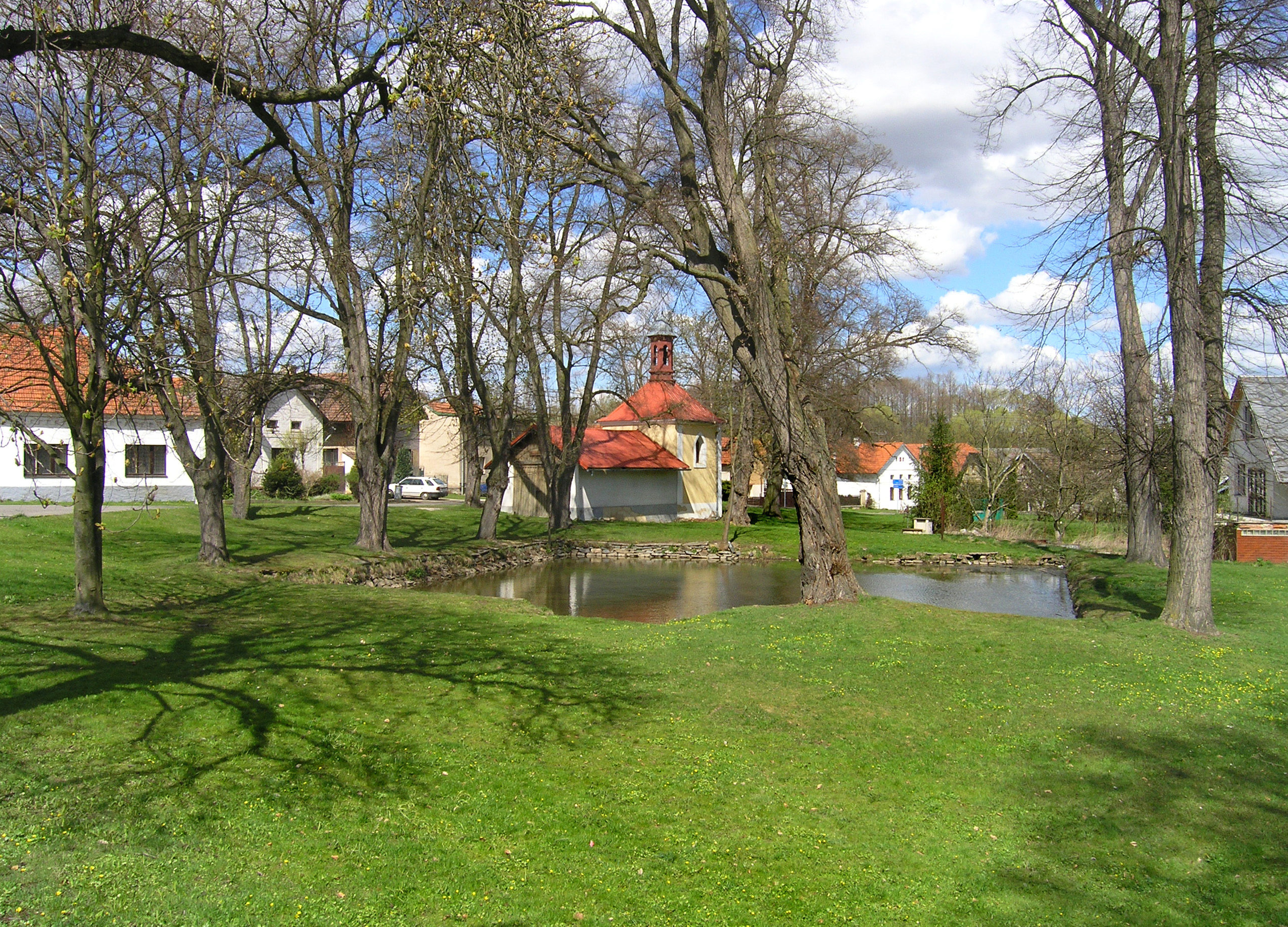 Upper common in Bohouňovice II, part of Horní Kruty village, Czech Republic